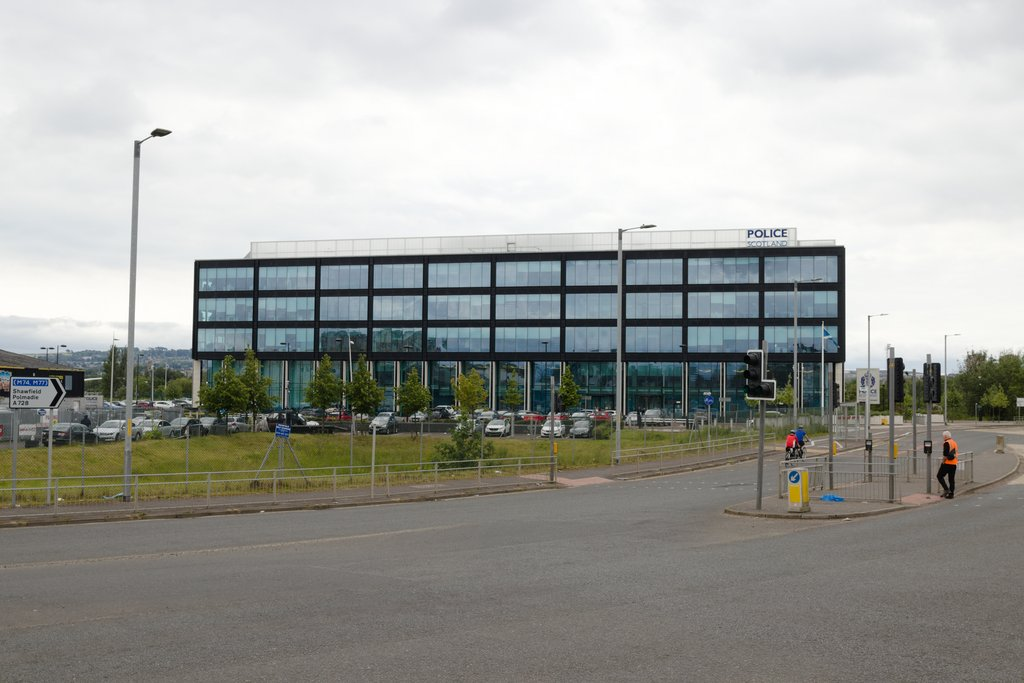 Police Scotland building, Shawfield Drive